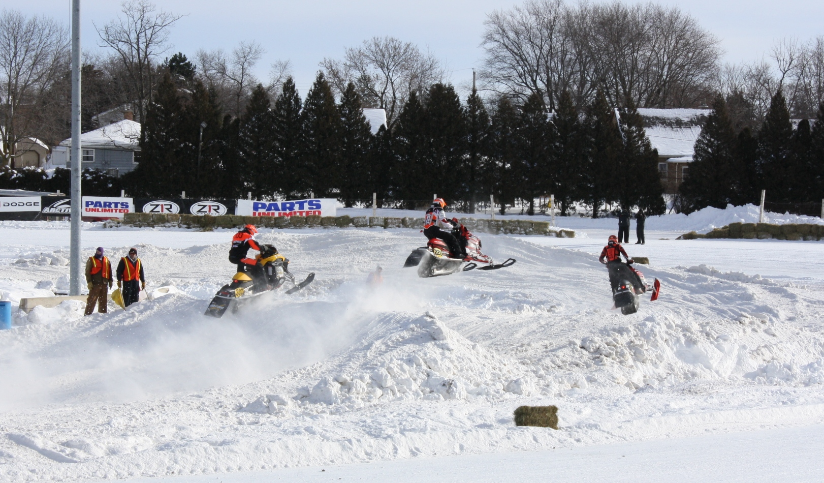 Snocross racers enter a corner at the Sheboygan County, Wisconsin fairgrounds in Plymouth, Wisconsin. It was a GNSS event.